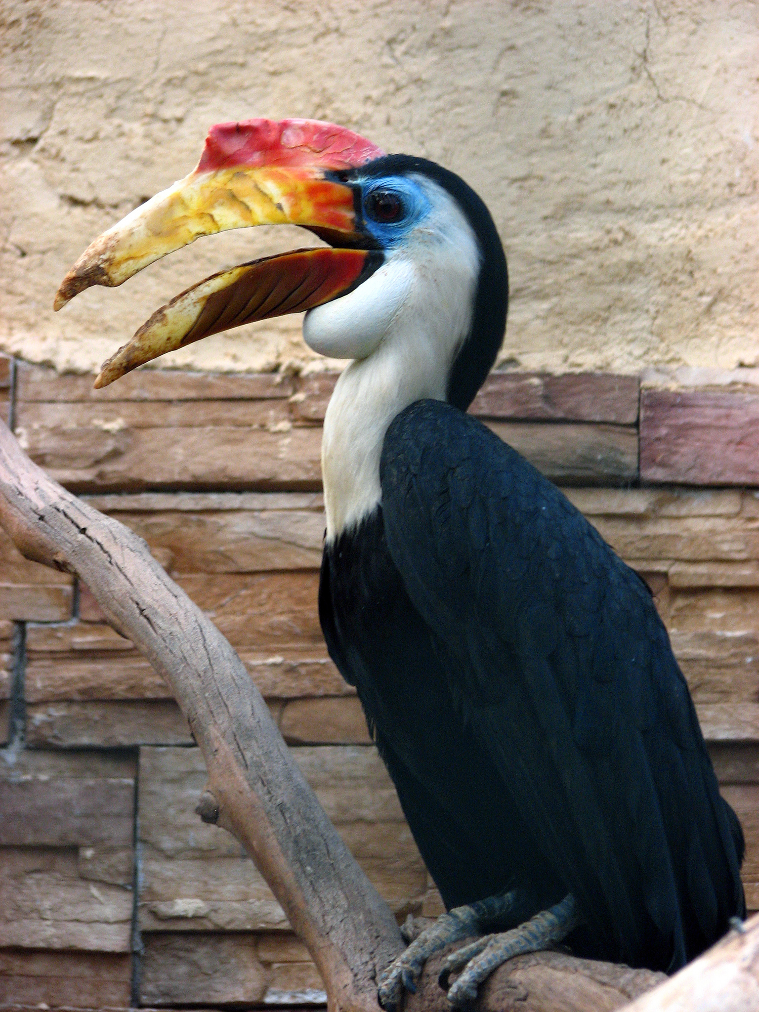 A male Wrinkled Hornbill at Attica Zoo Park, Athens, Greece.